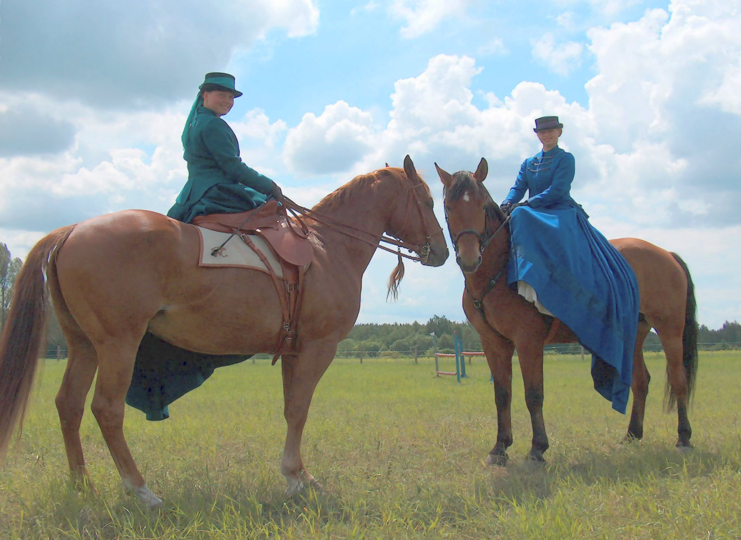 Two amazons riding sidesaddles.